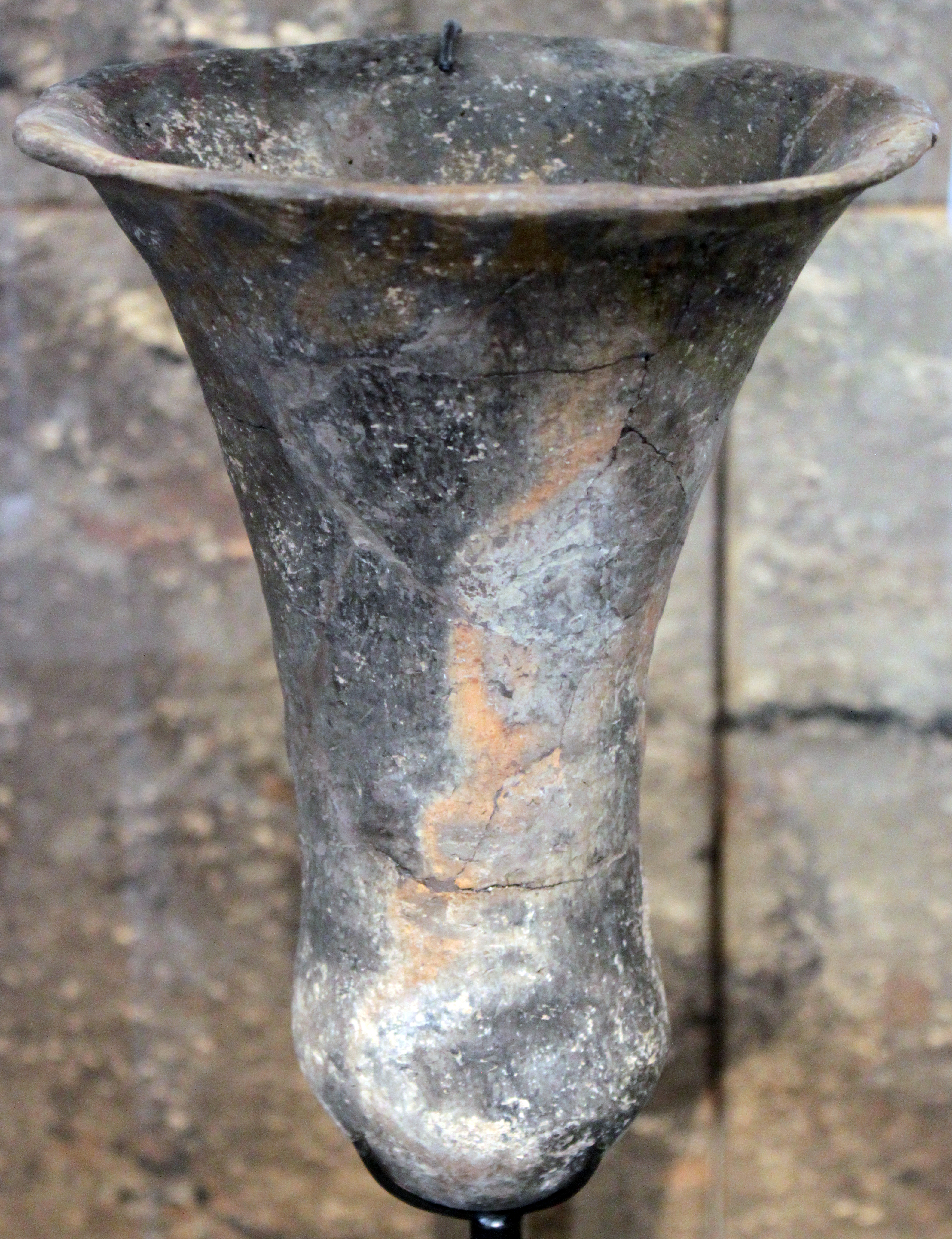 Tulip beaker from Michelsberg, 4.000 - 3.600 BC, shown at the Landesmuseum Württemberg, Stuttgart, Germany